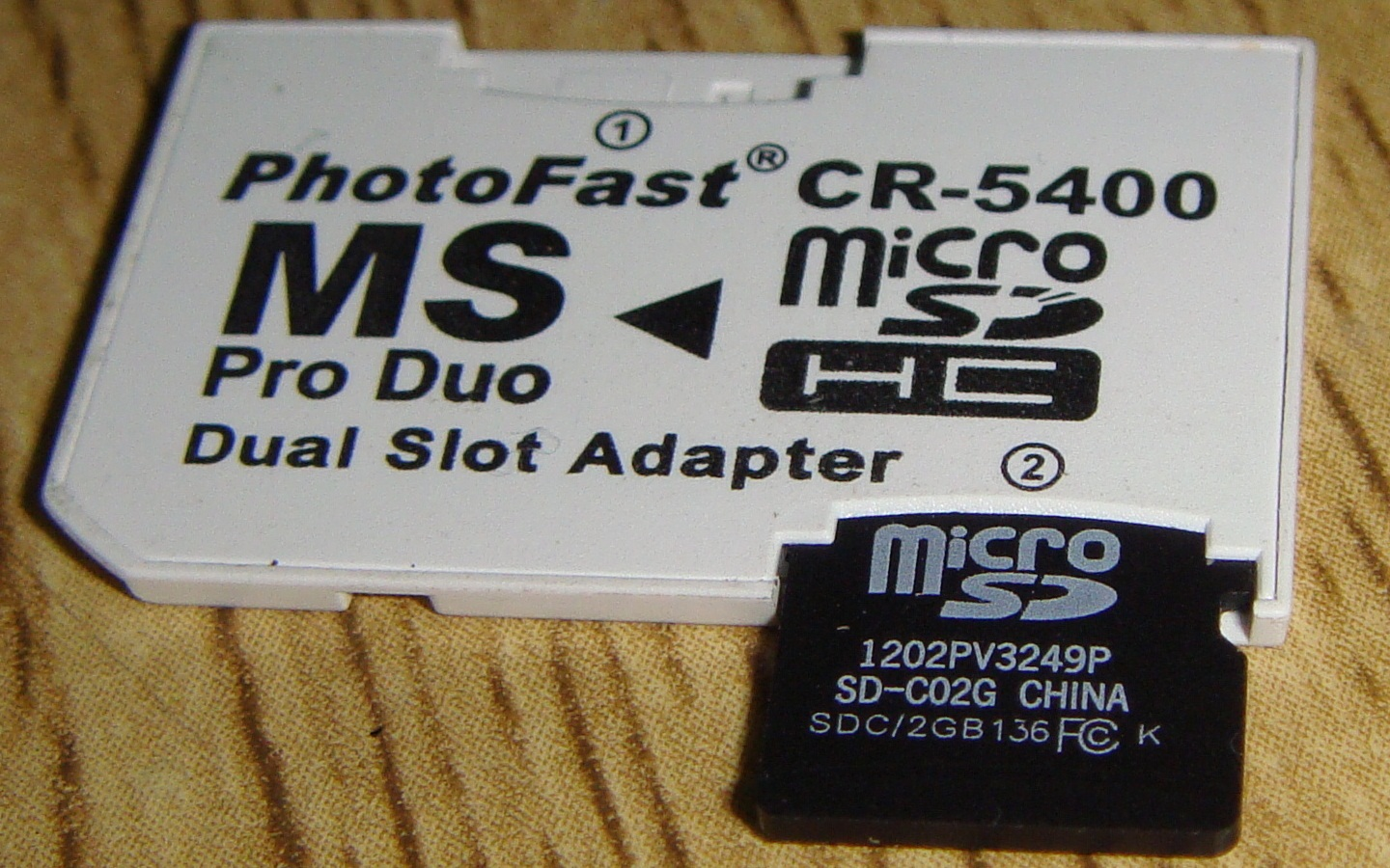 Micro SD to Memory Stick Pro Duo Adaptor